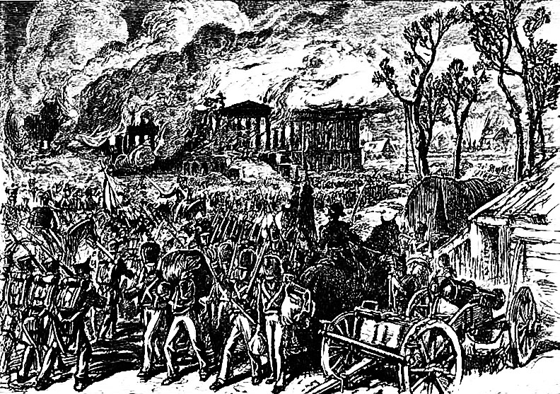 Drawing, "Capture and burning of Washington by the British, in 1814." 1876 publication.